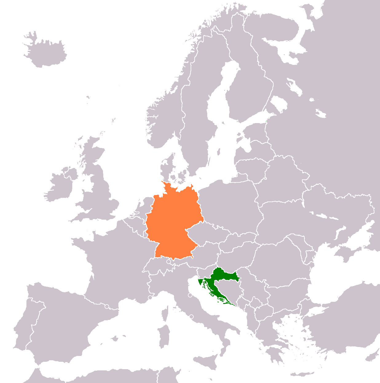 Croatia-Germany locator map.